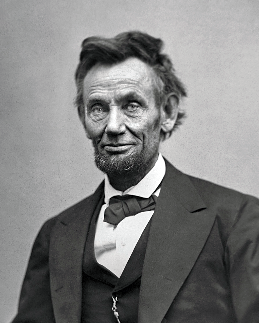 Abraham Lincoln, three-quarter length portrait, seated and holding his spectacles and a pencil